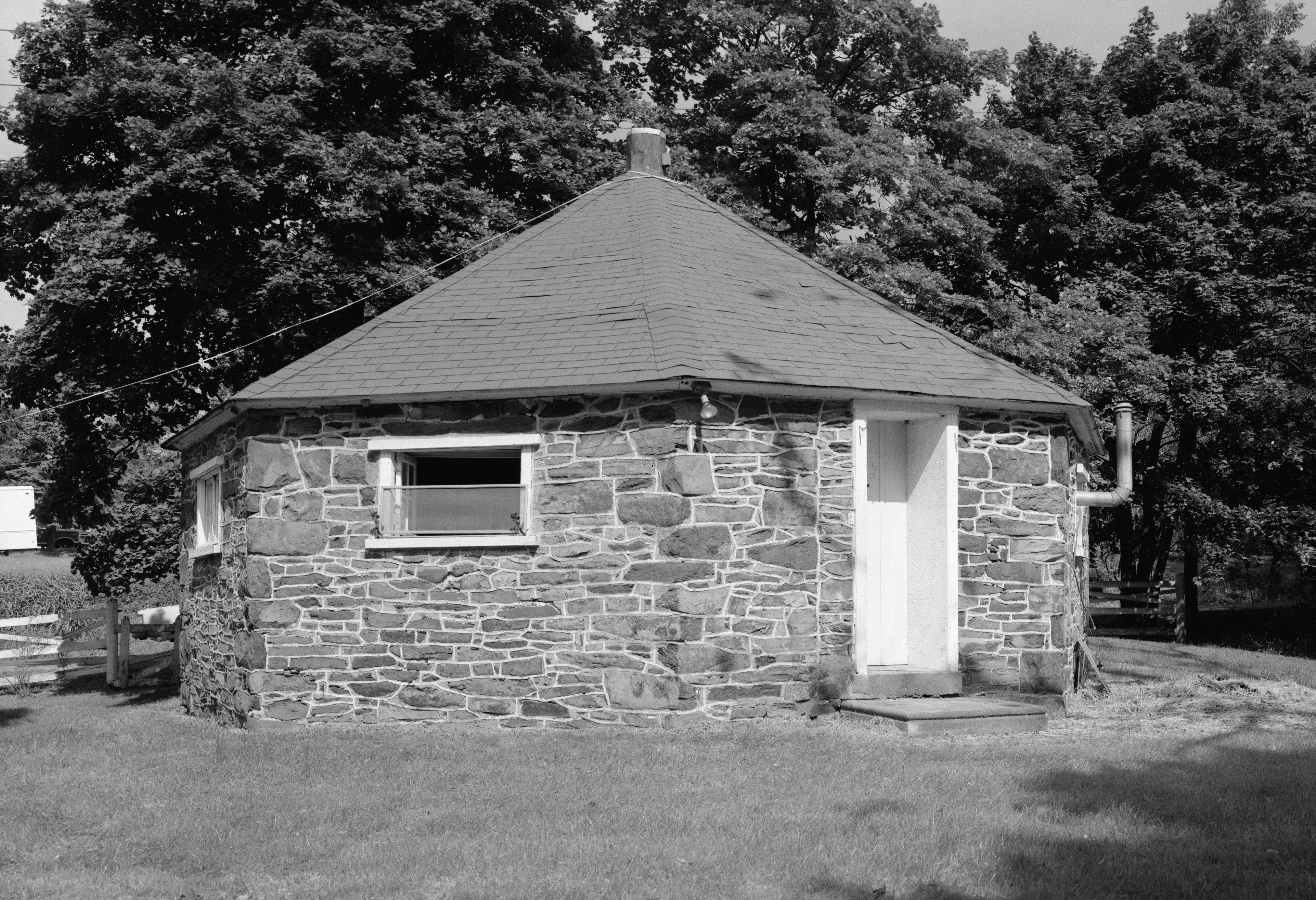 VIEW FROM SOUTH - Penns Park Octagonal School House, South corner State Road 232 & Swamp Road, Wrightstown, Bucks County, PA